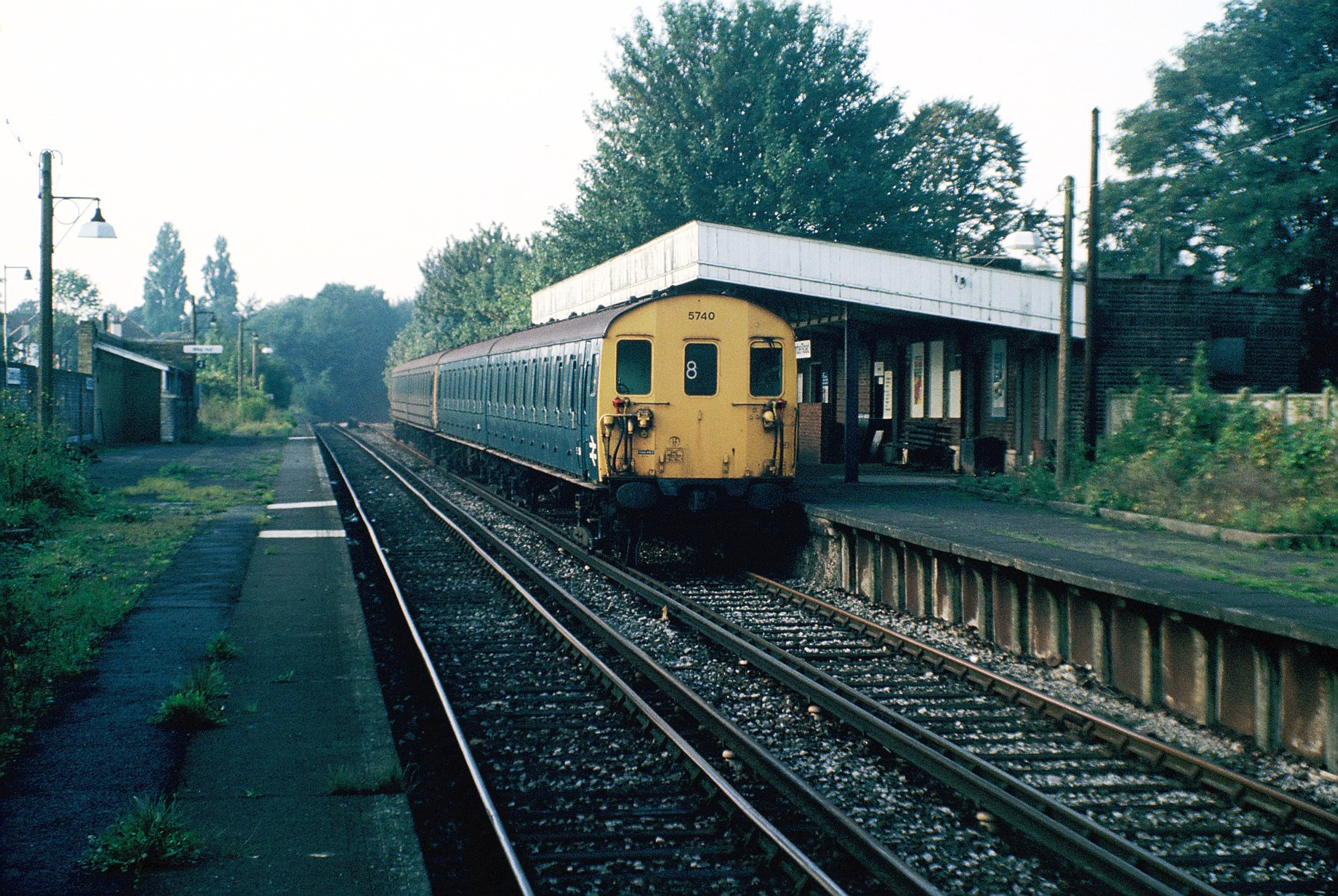 Class 416 5740 at Coombe Road railway station.